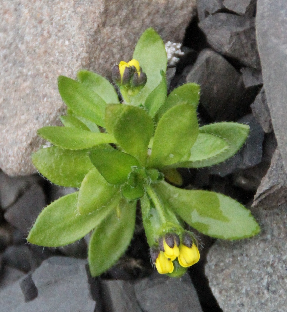 Saxifrage flowers observed at the island Spitsbergen - Svalbard. August 2012.